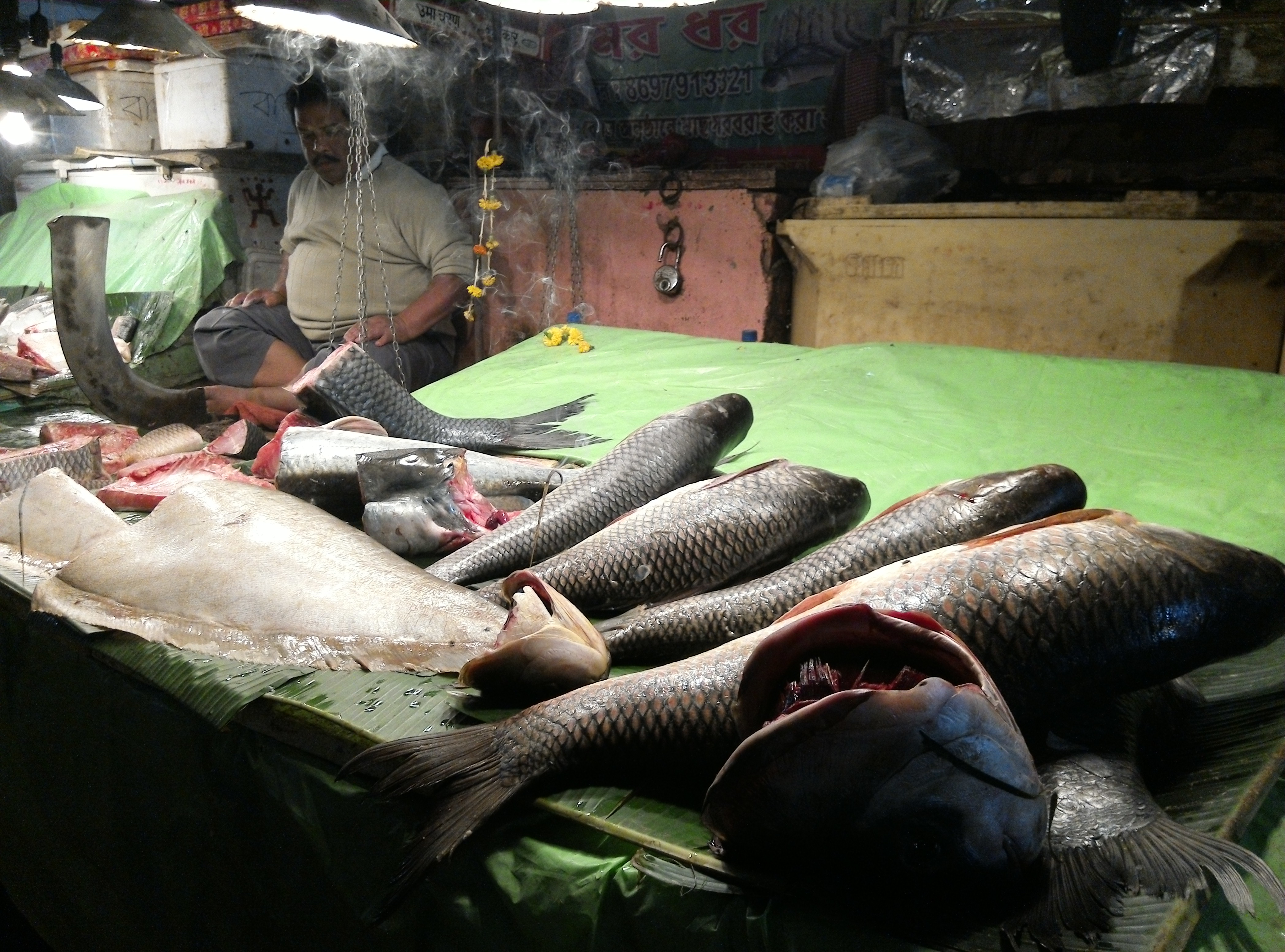 Fish vendor in Jadavpur market, West Bengal